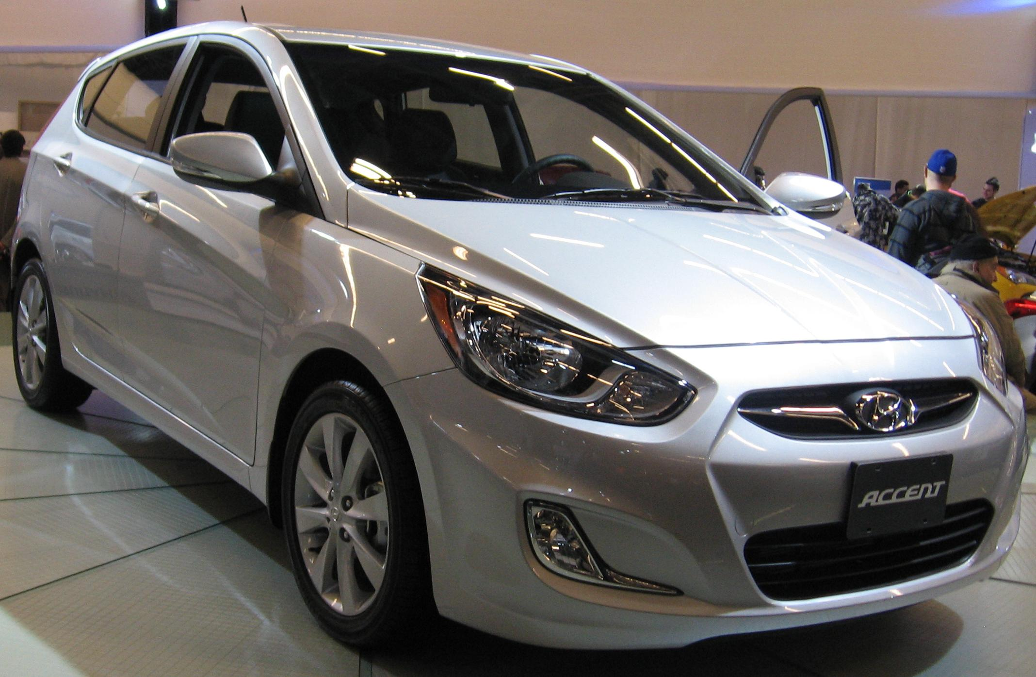 2012 Hyundai Accent photographed in Montreal, Quebec, Canada at the 2011 Montreal International Auto Show.